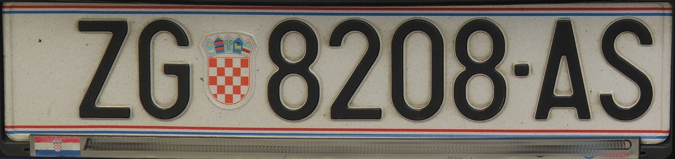 Croatian registration plate as seen in 2007. ZG - stands for Zagreb.